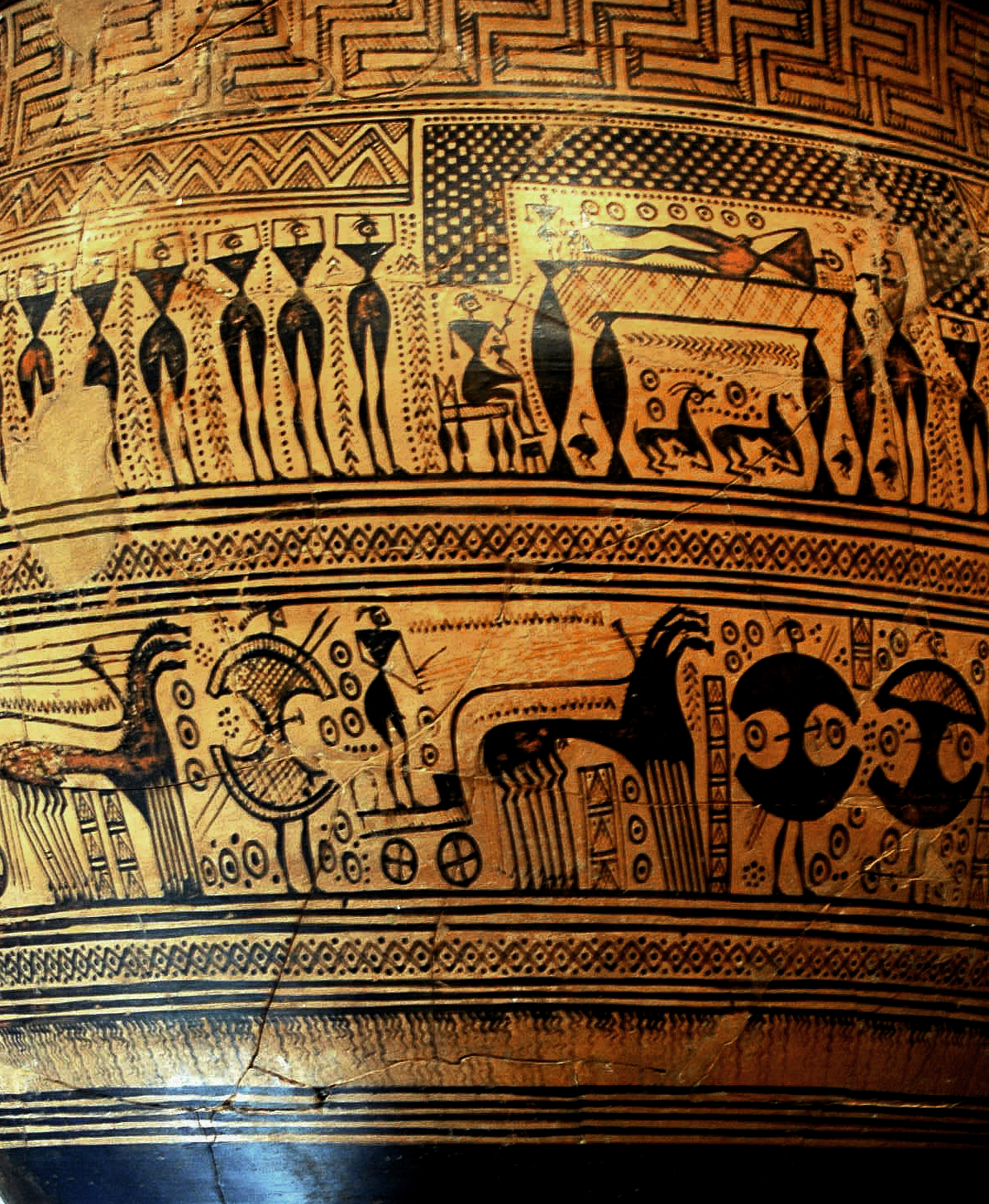 Funerary Krater with a prothesis scene (upper tier) and a procession of chariots and foot soldiers (lower tier)